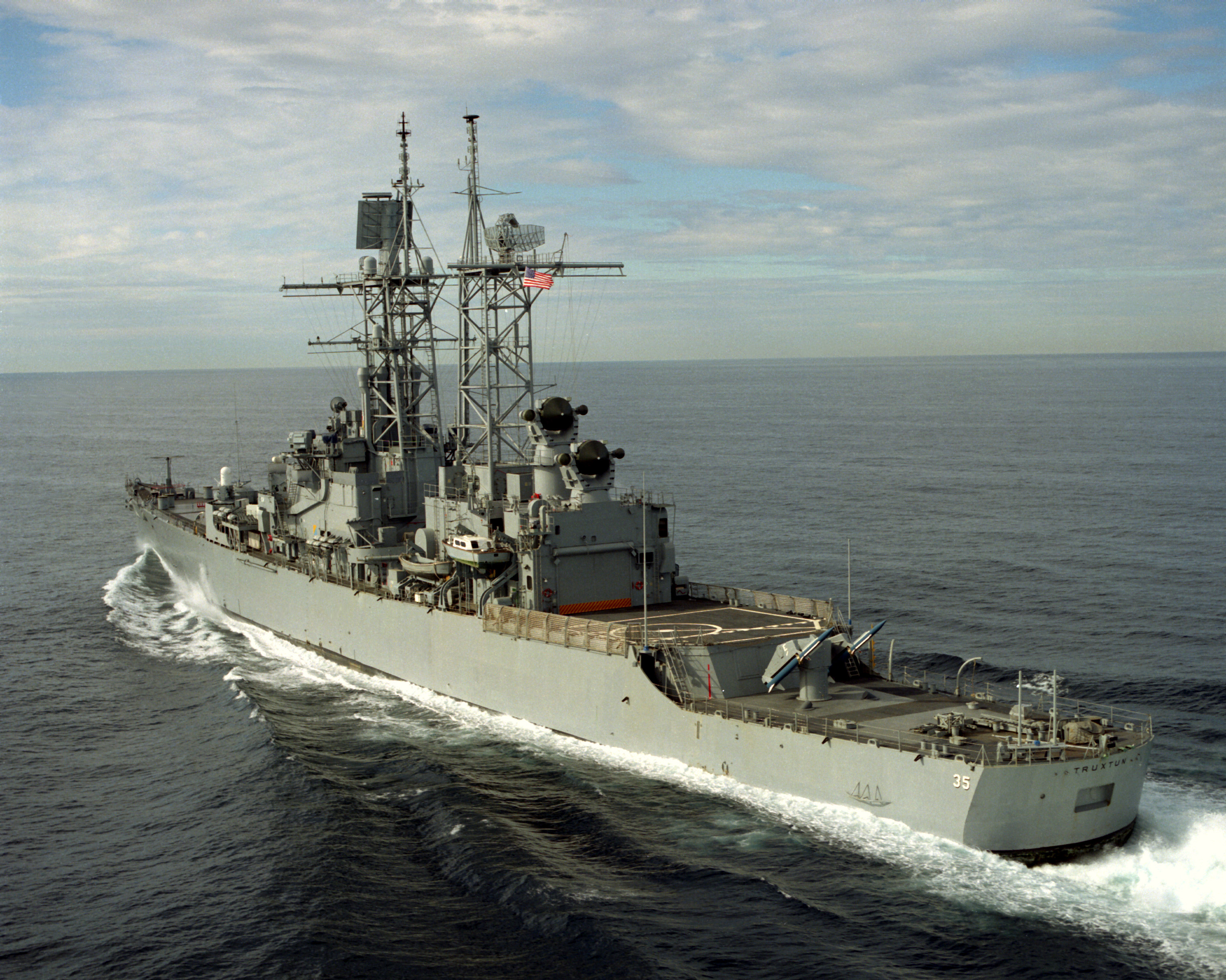 The U.S. Navy guided missile cruiser USS Truxtun (CGN-35) underway off San Diego (USA) on 3 January 1989.